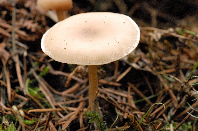 Clitocybe vibecina from Commanster, Belgium. If you think this is a different taxon, please contact James Lindsey.